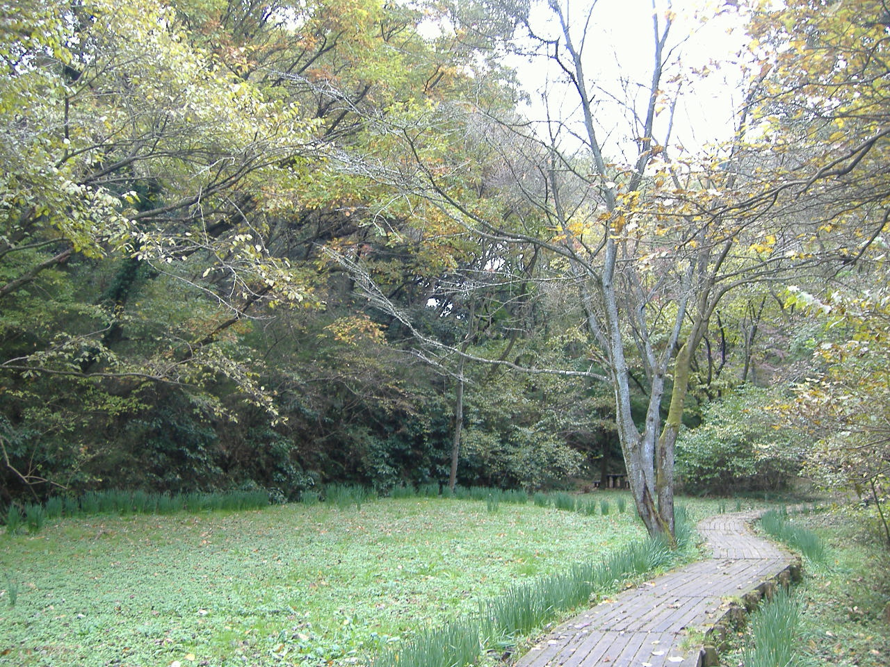 Hitorizawa Forest (Yokohama, Japan)